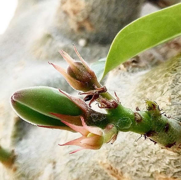 adenium seed